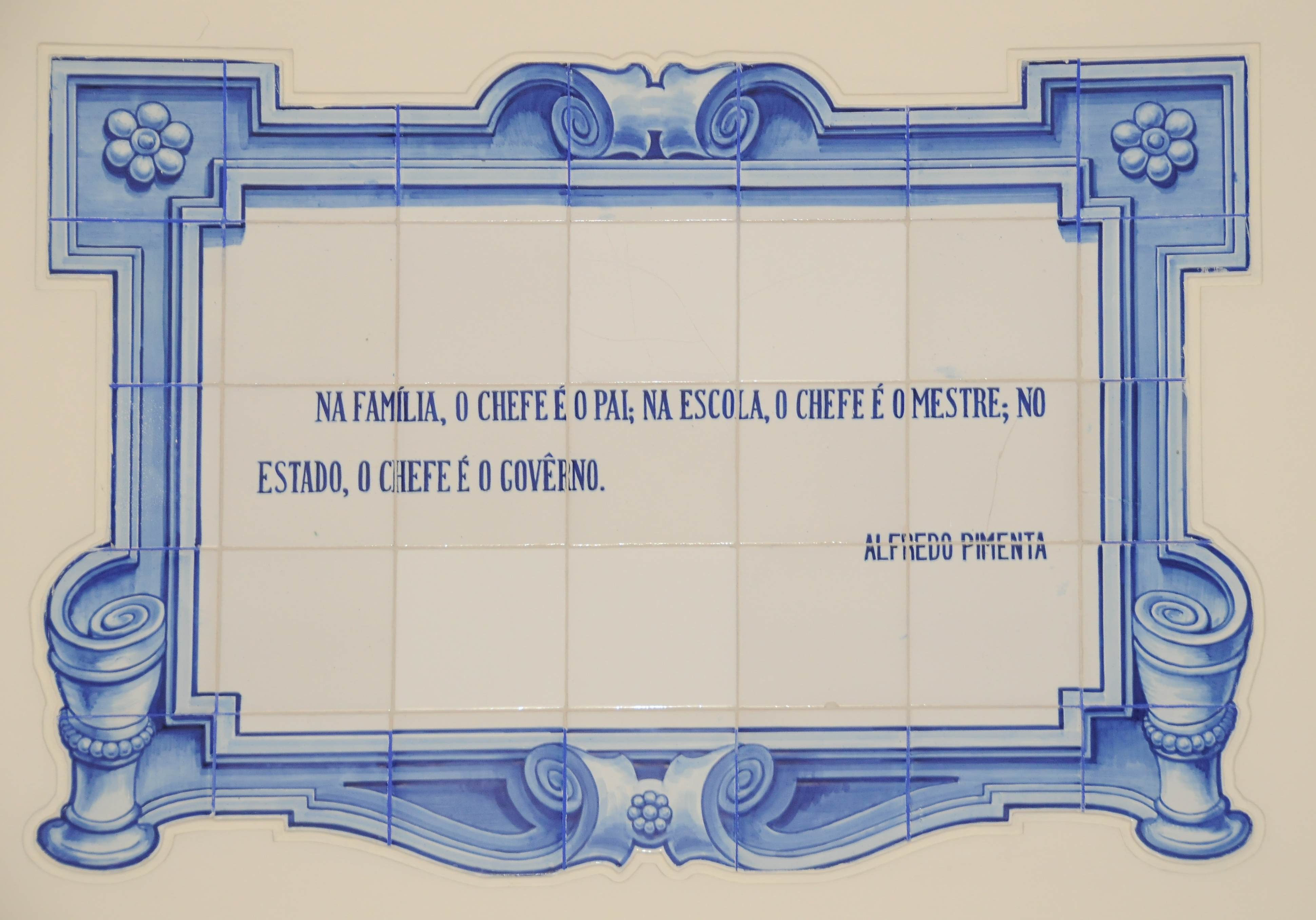 Azulejos with a saying from Alfredo Pimenta, in Centro Cultural Rodrigues de Faria, Forjães, Esposende, Portugal.